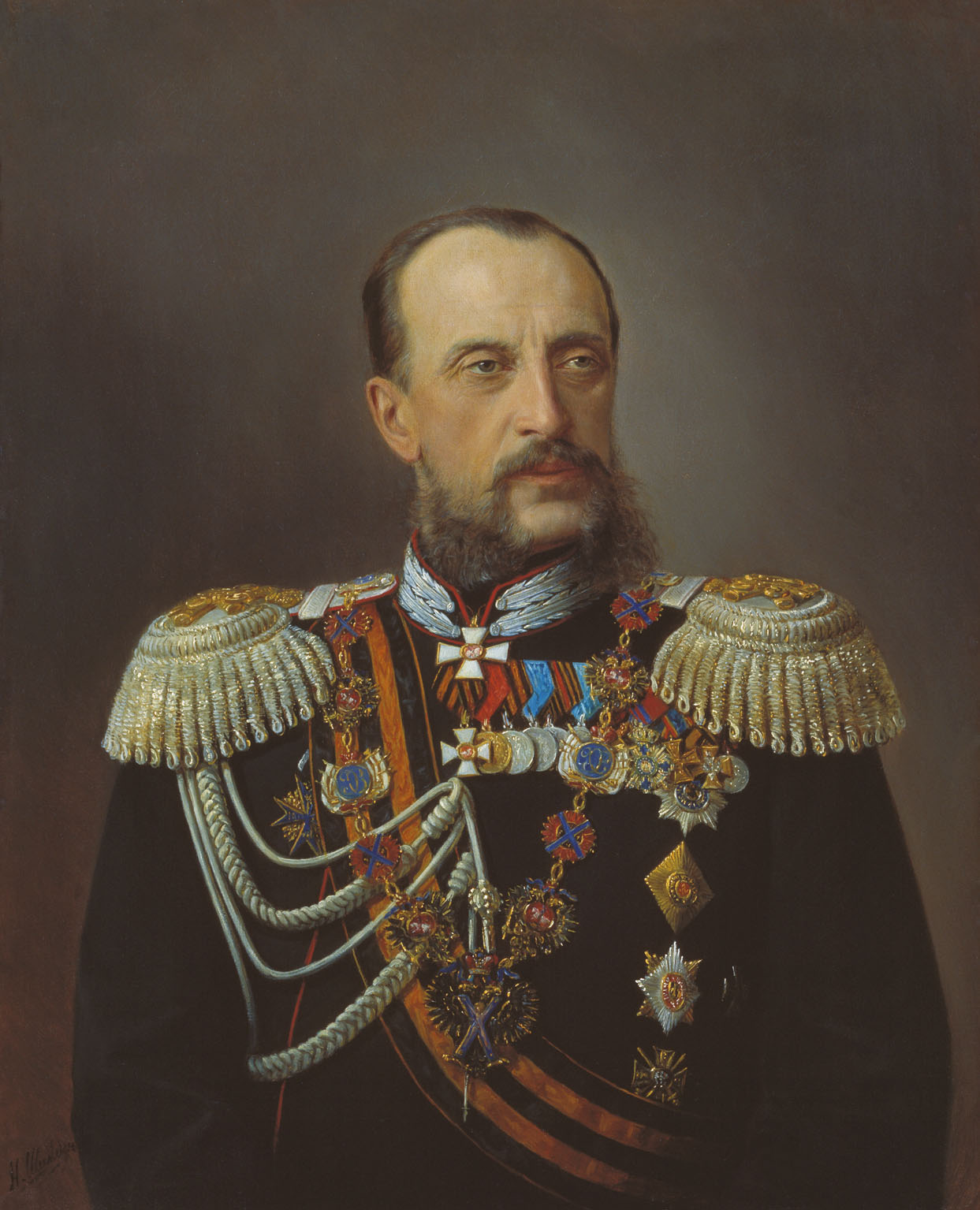 Grand Duke Nikolai Nikolaevich the Elder of Russia (1831–1891), Field Marshal of the Russian Empire.